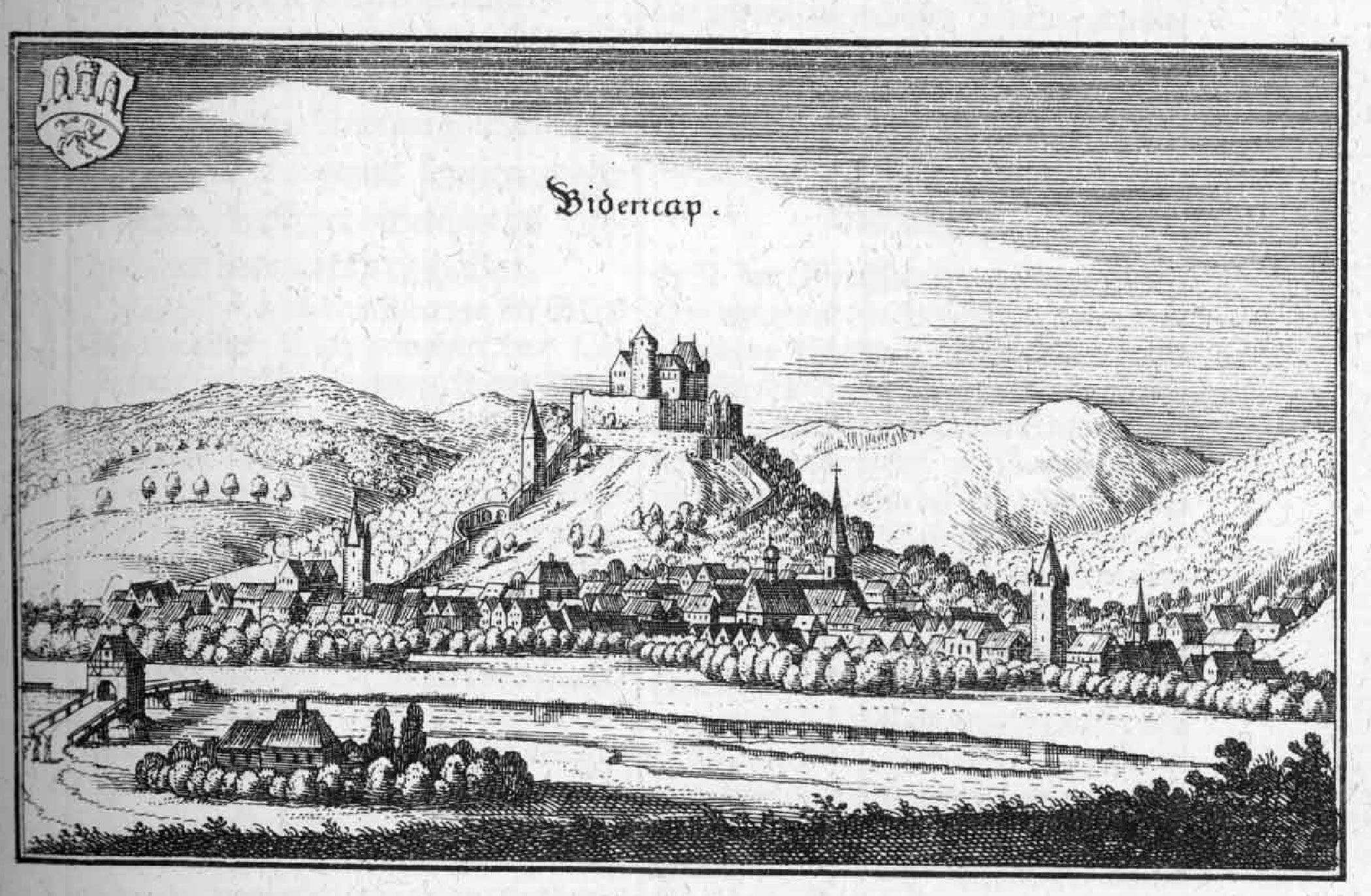 This is a scan of the historical document Biedenkopf, part of Topographia Hassiae